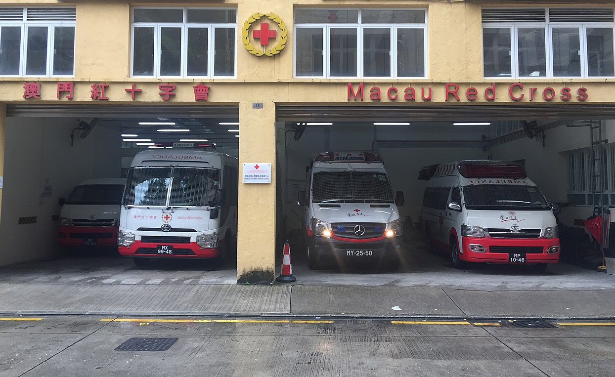 黑沙環行動站